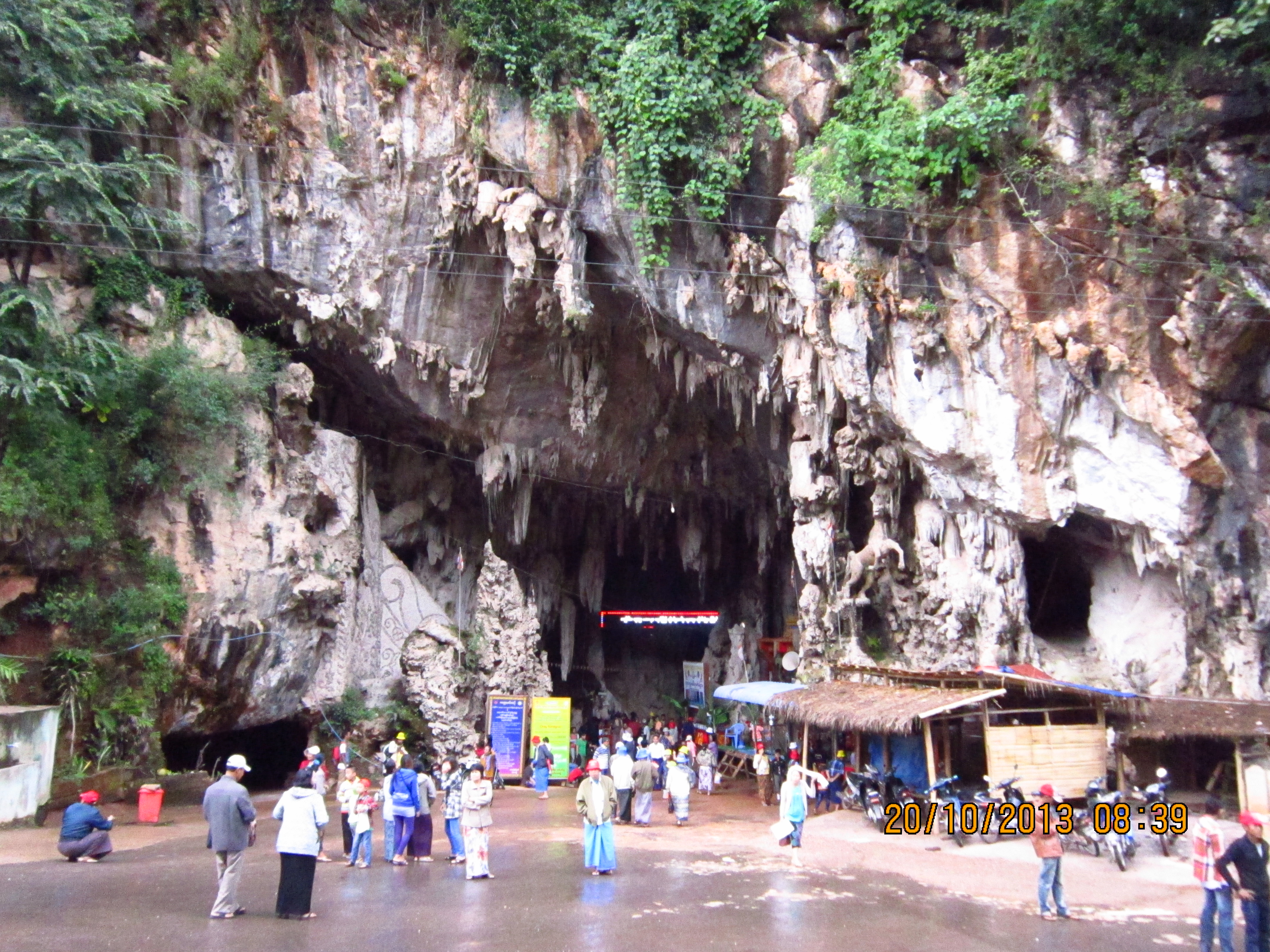 Entrance of Htam Sam Cave, Shan State မြန်မာဘာသာ: ထမ်းဆမ်းဂူ ဝင်ပေါက်၊ ရှမ်းပြည်နယ်